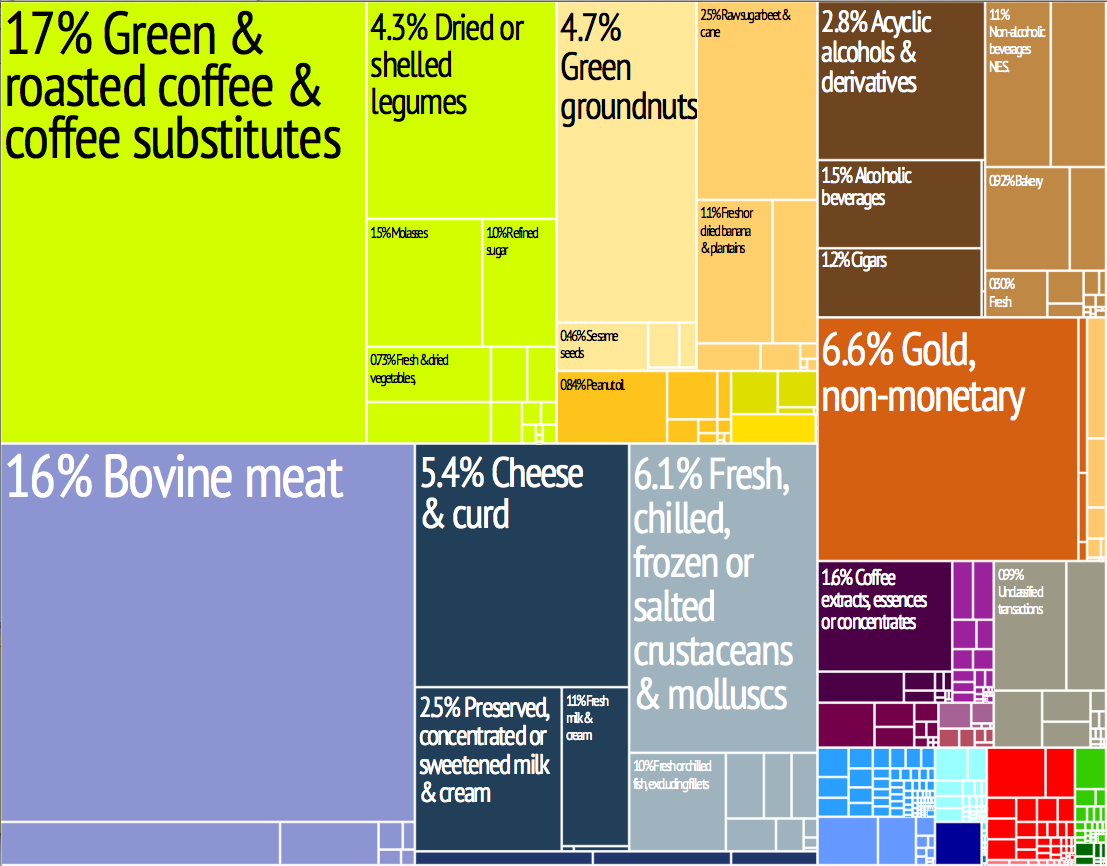 Export Trading Treemap. From MIT/Harvard Atlas of Economic Complexity